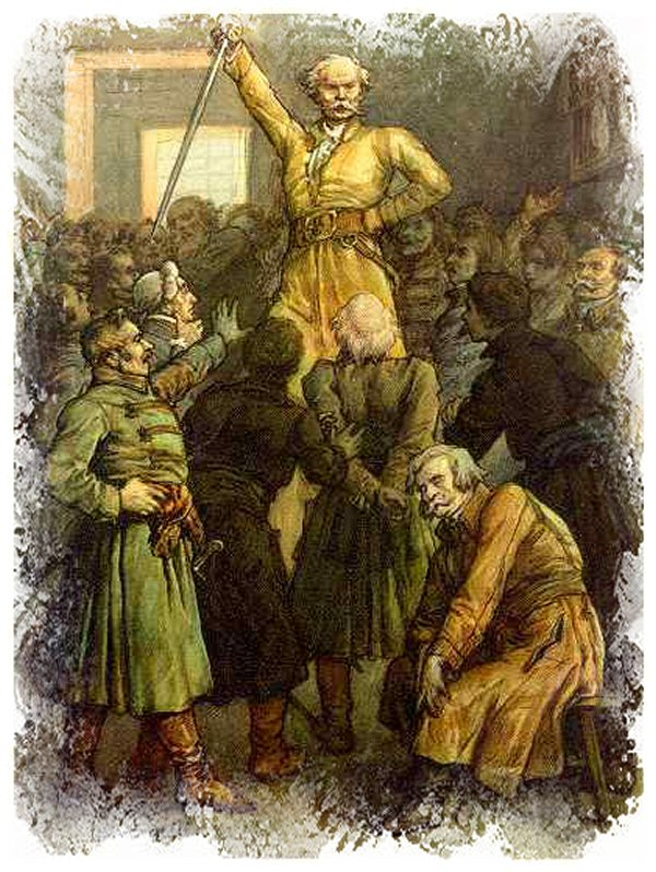 Illustration of Pan Tadeusz, Book 7